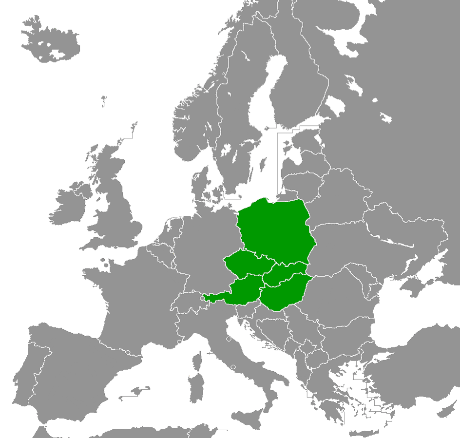 Central Europe according to Milan Kundera